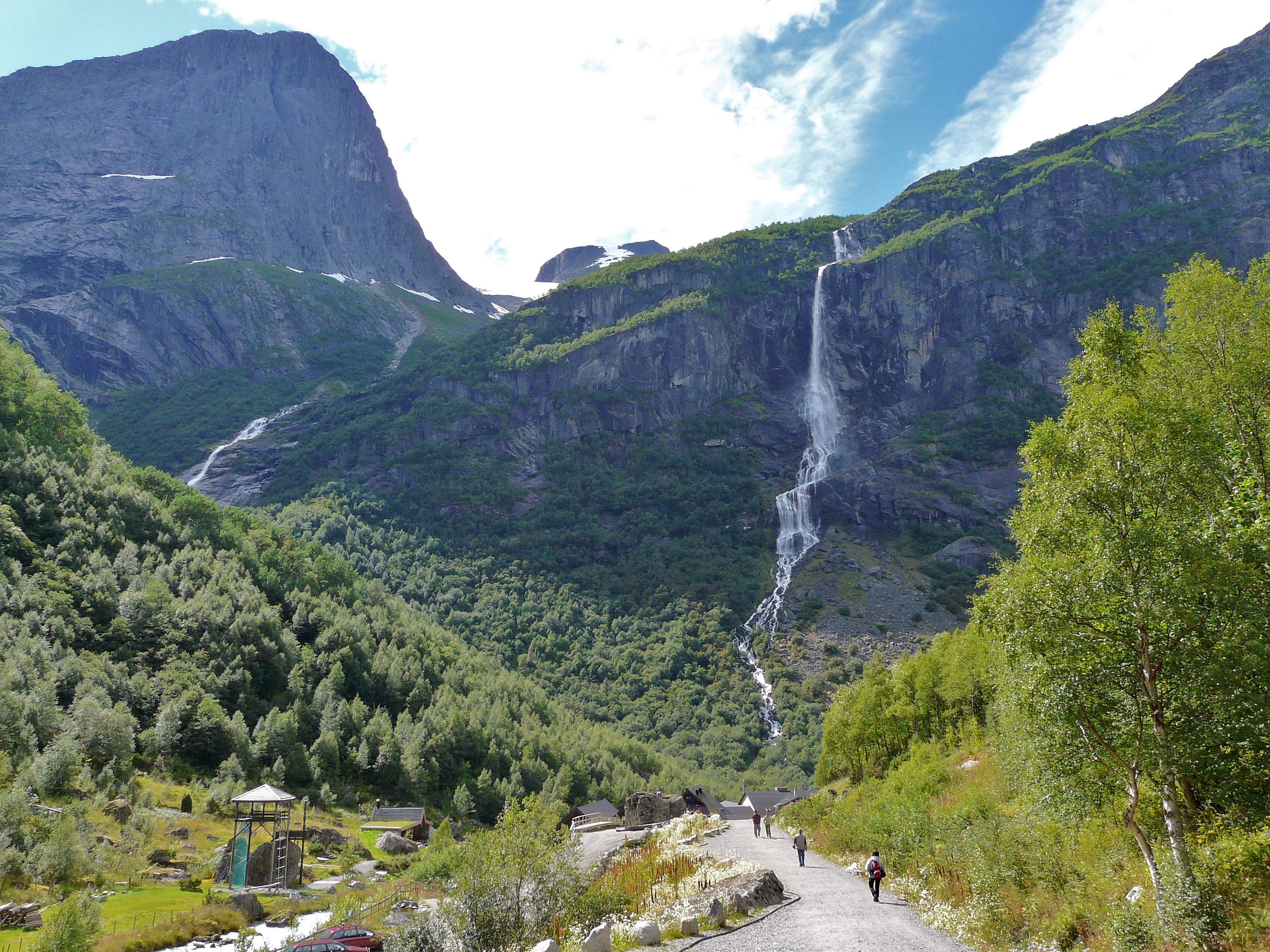 A view to Oldedalen as seen from Briksdalen. The waterfall in the center is Volefossen. The picture has been taken from the path leading to Briksdalsbreen in 2008 August.